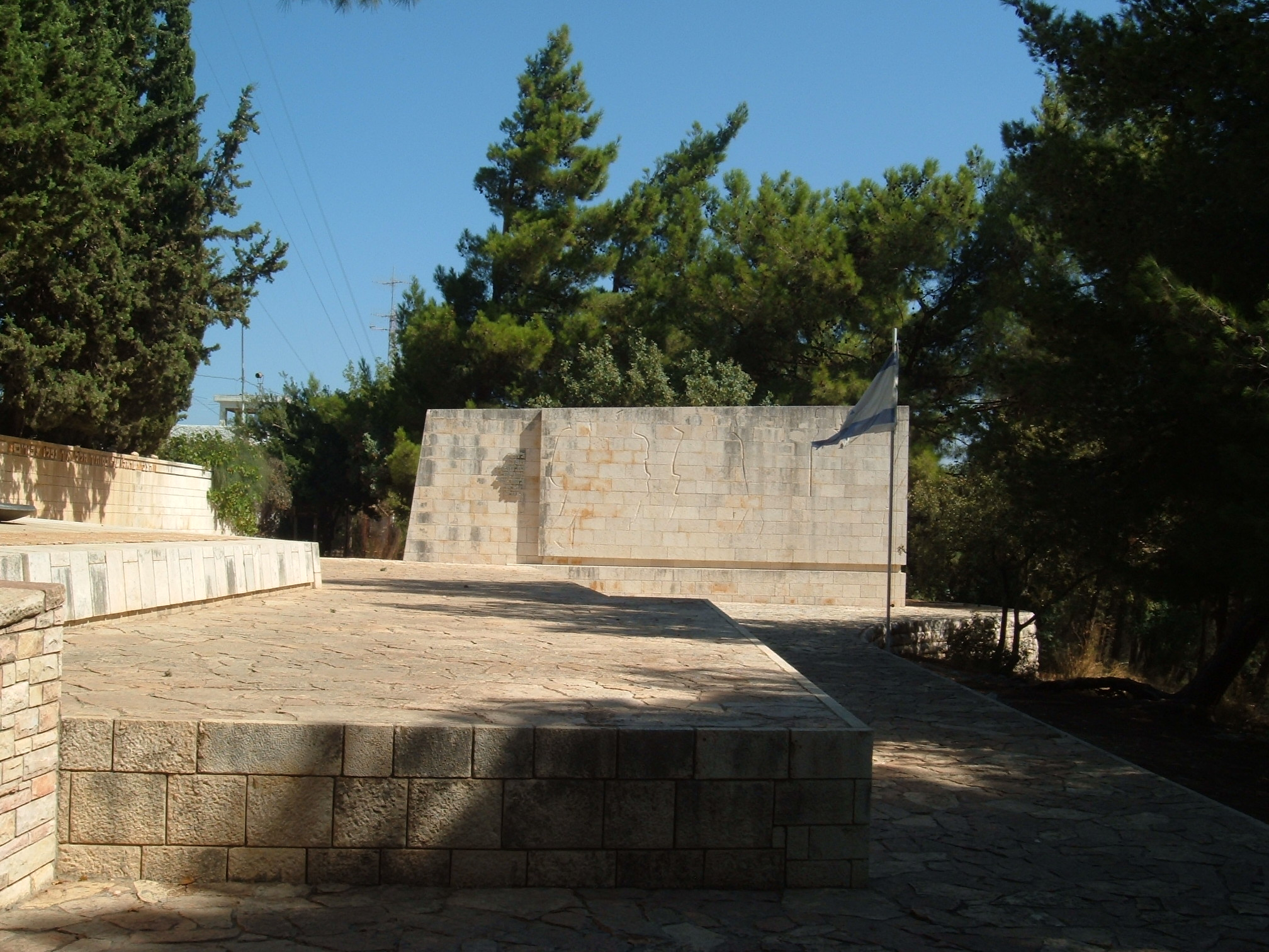 A monument commemorating the casualties in the battles of Metzudat Koach. אנדרטה לזכר הנופלים במצודת כ"ח